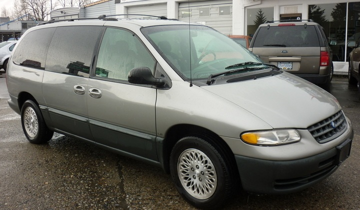 Canadian-spec 1997 Plymouth Grand Voyager LE